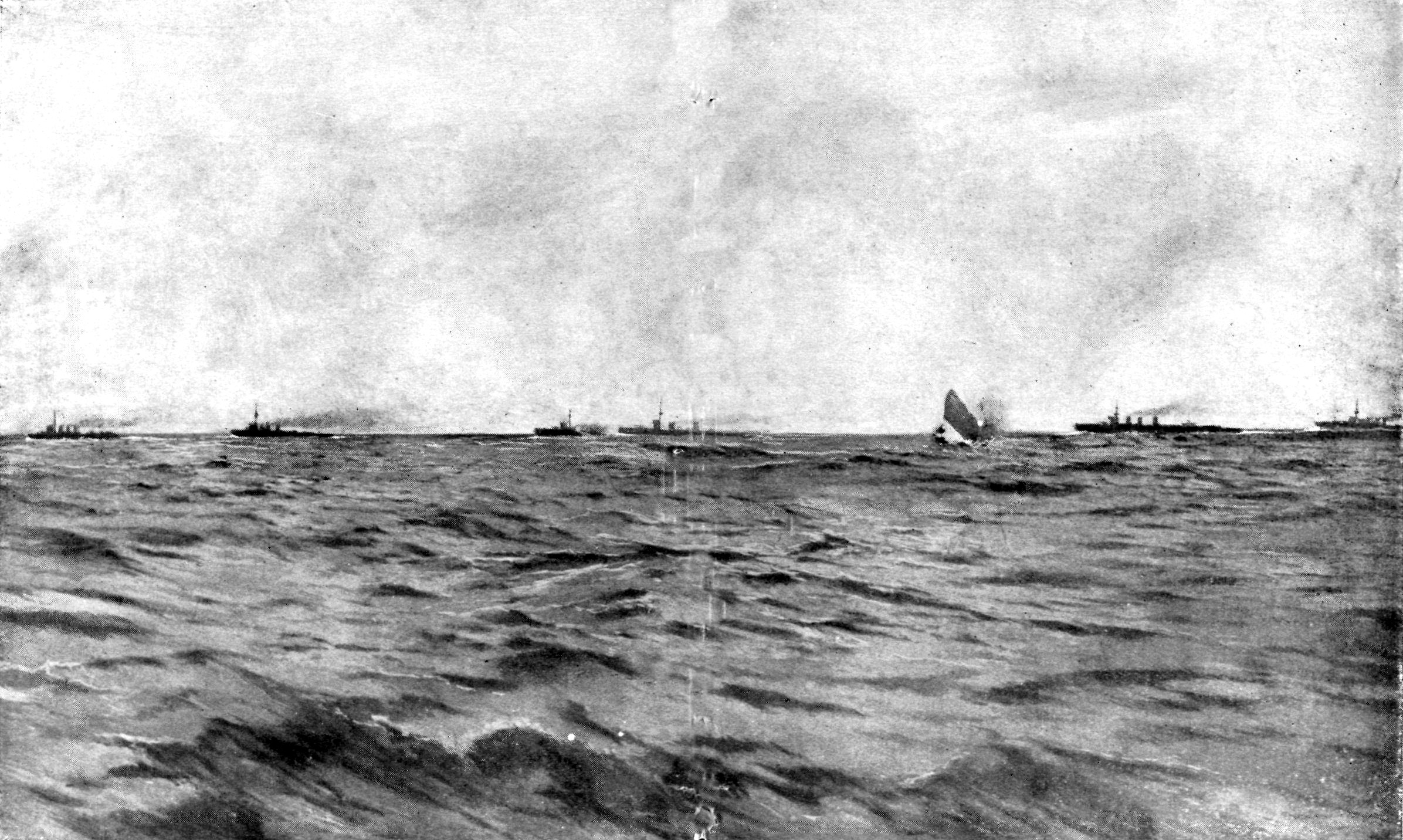 Illustration p36